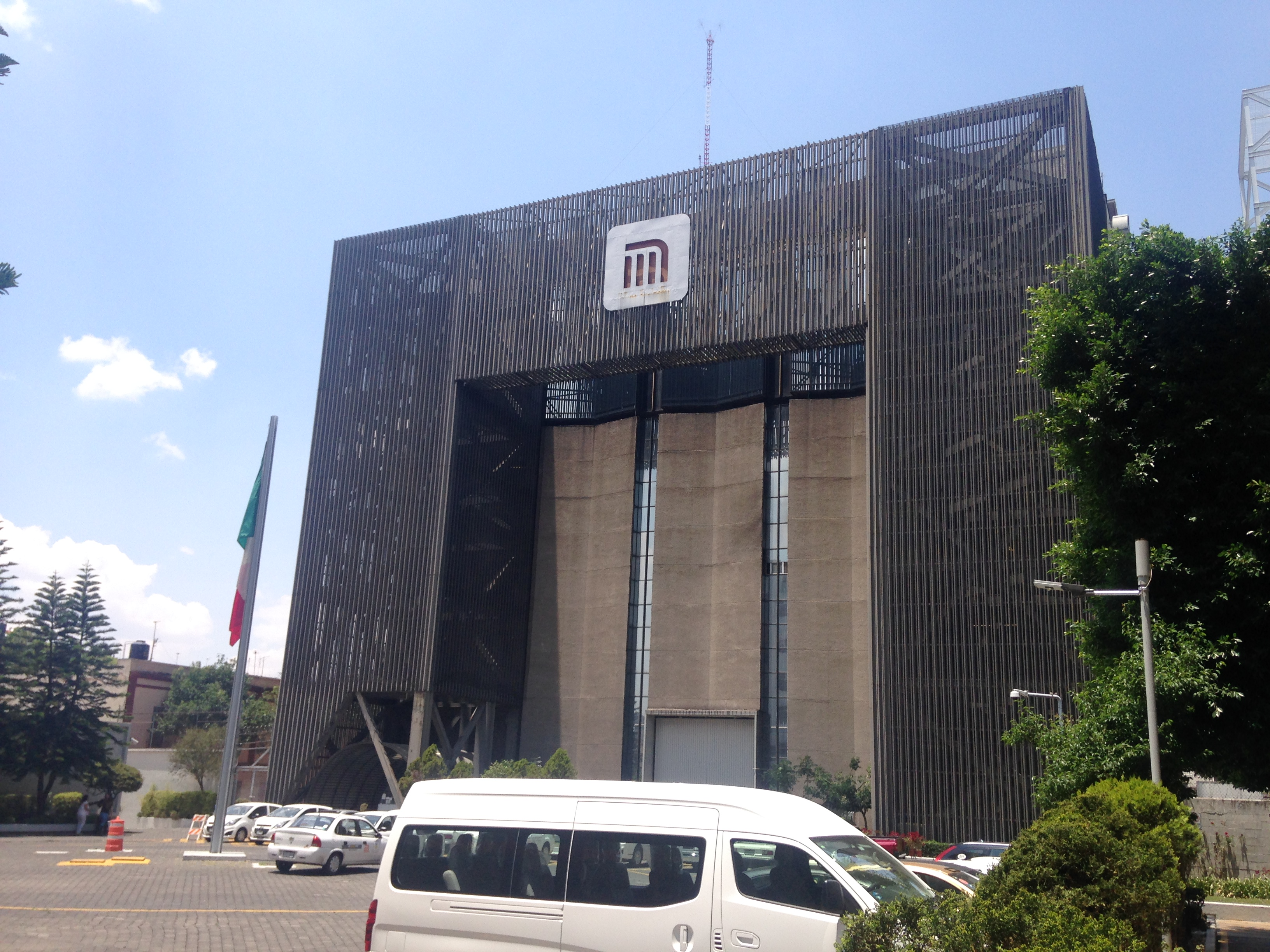 Mexico City Metro main offices at Historical Downtown of Mexico City